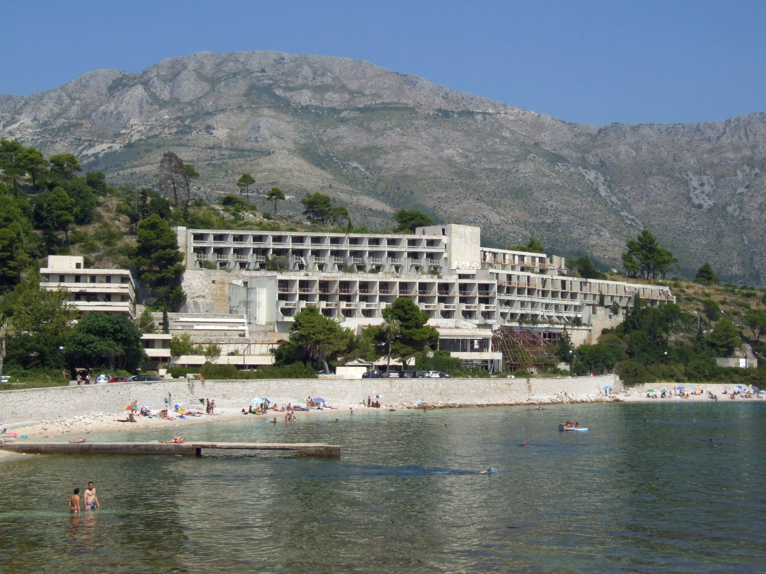 Kupari, Croatia - destroyed hotel Goričina